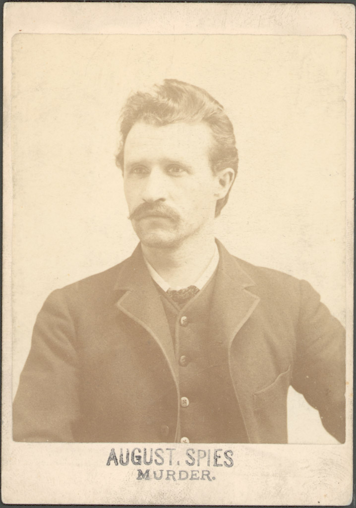 Portrait of August Spies, one of the defendants who was charged with murder in the Haymarket Anarchists Trial, 1886.